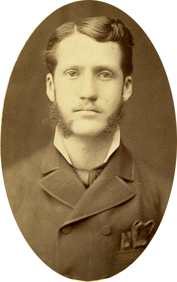 Remigio Crespo Toral